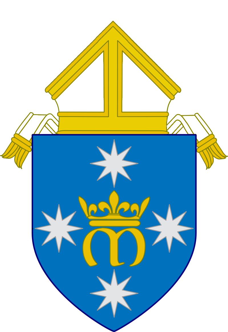 Coat of Arms of the Ordinariate of Our lady of the Southern Cross